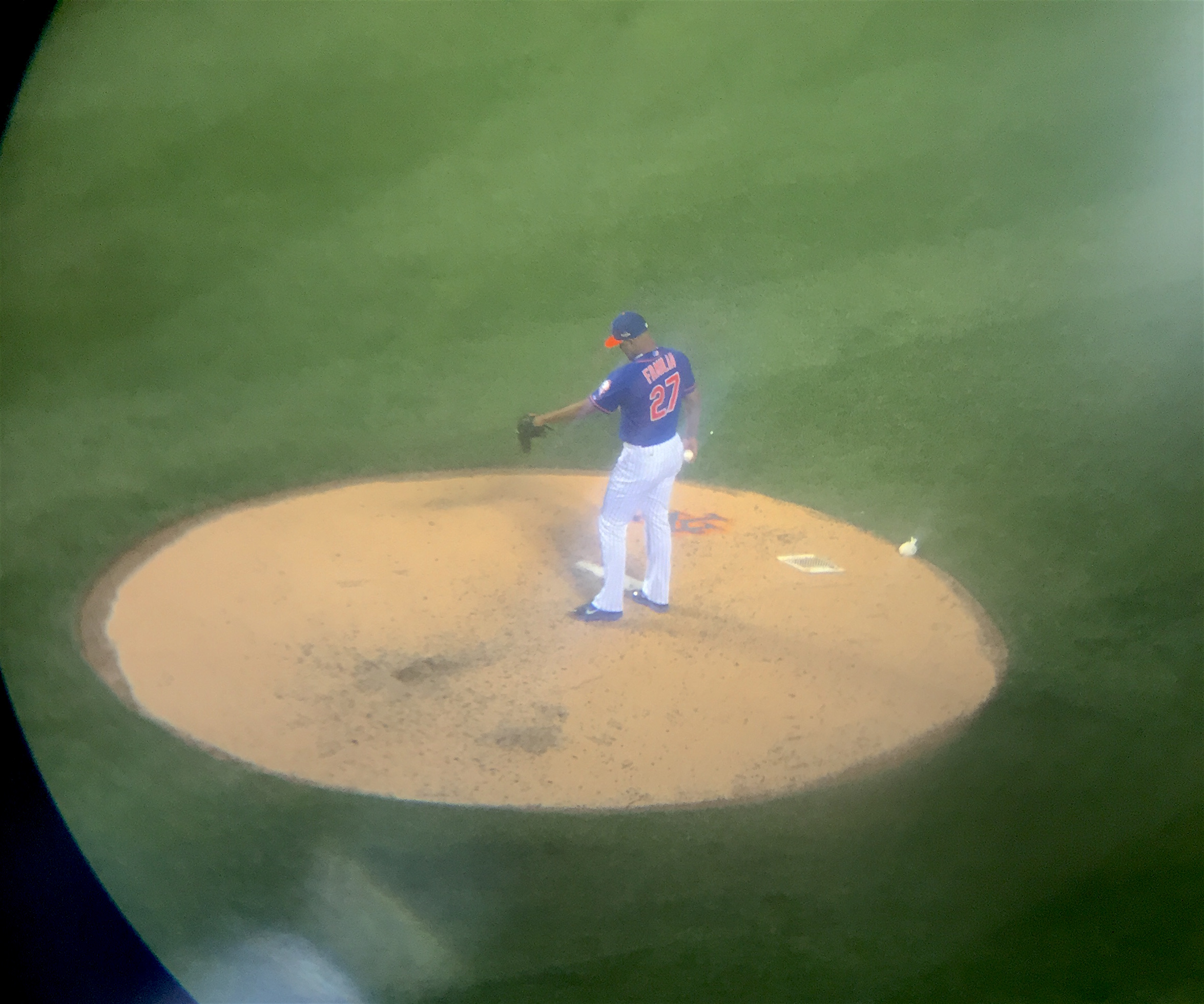 Jeurys Familia of the New York Mets pitches in Game 1 of the 2015 National League Championship Series.